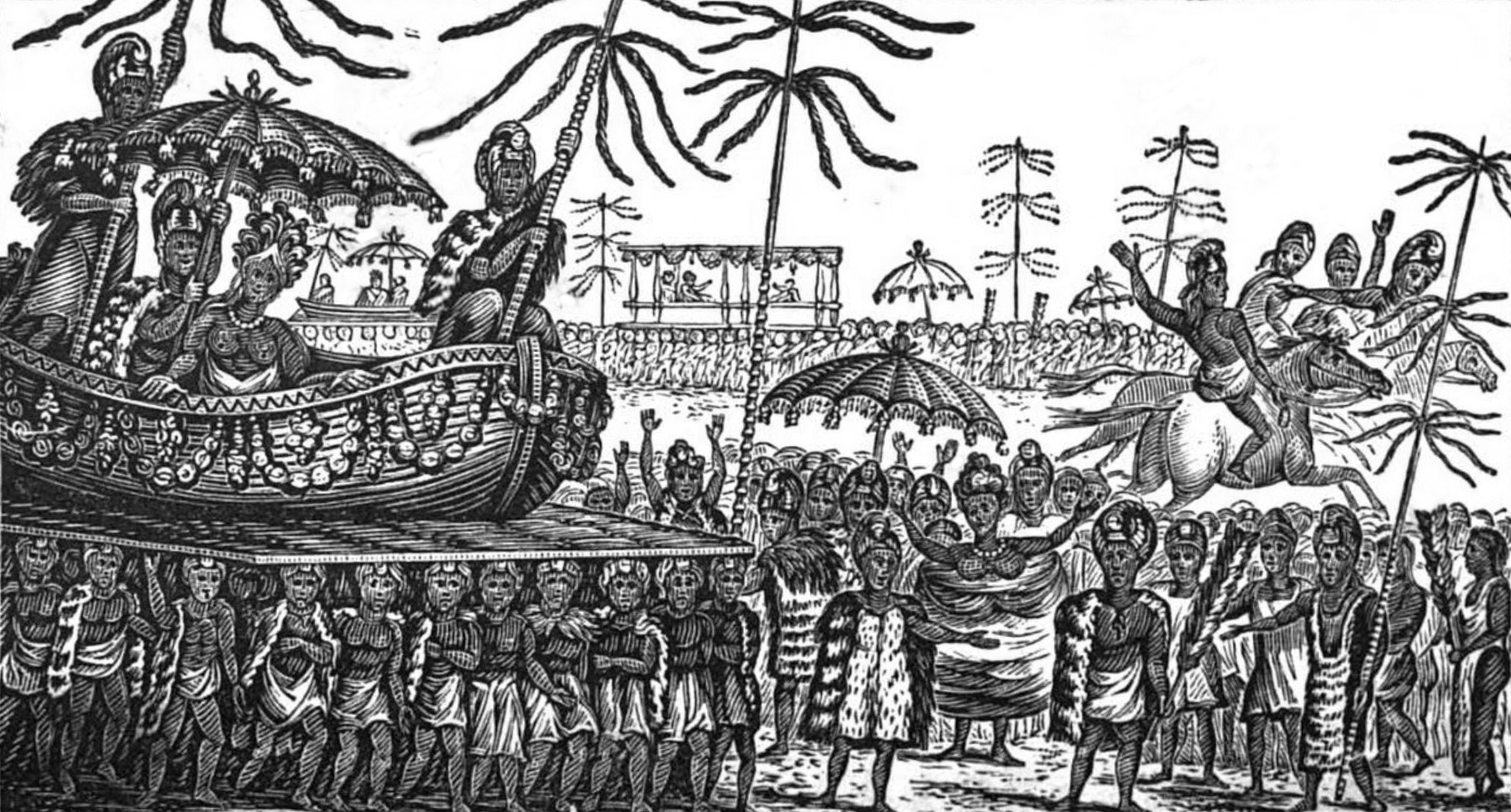 Procession to commemorate the death of King Tamaha-meha. 1823 woodcut from the Rev. Ephraim Eveleth’s History of the Sandwich Islands, published in 1829; not all editions of the books had these plates. Three of the six plates used in the book including this one are amongst the collection of the Hawaiian Mission Children’s Society Library. The celebration illustrated here was observed by missionary Charles Samuel Stewart in May of 1823 during the feast commemorating the anniversary of the death of Kamehameha I and the accession of Kamehameha II. Shown here was the spectacular parade through the streets of Honolulu village by the royal family to mark the end of that year’s commemorative festivities. Kamehameha II's wife Queen Kamāmalu presented herself to her subjects wearing a scarlet paʻū and a coronet of feathers while carried aloft in an elegantly decorated whale boat. Two high-ranking chiefs, Kalanimoku and Naʻihe, attended her.